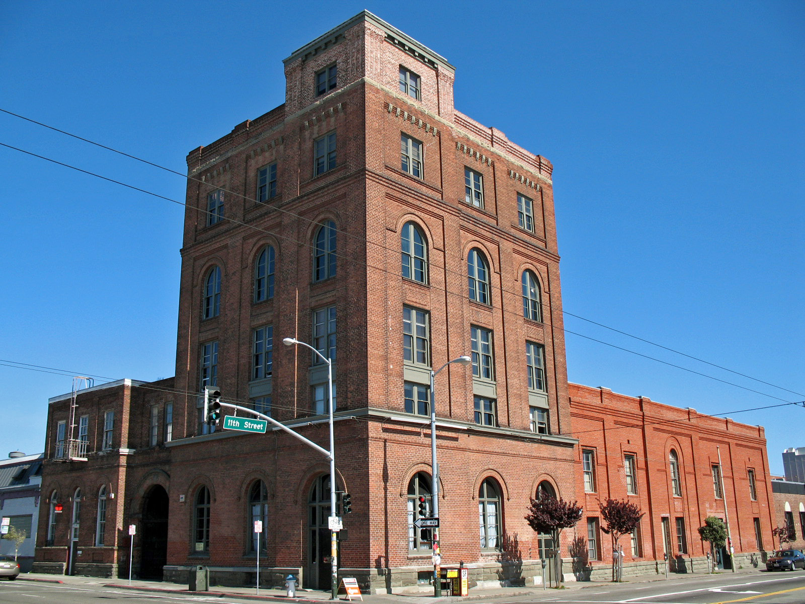 National Register of Historic Places in San Francisco, California. Jackson Brewing Company, 1475-1489 Folsom and 319-351 11th St, San Francisco, California, USA. Photographed 2008-03-23 by Mike Hofmann from the northwest corner of Folsom and 11th Sts.